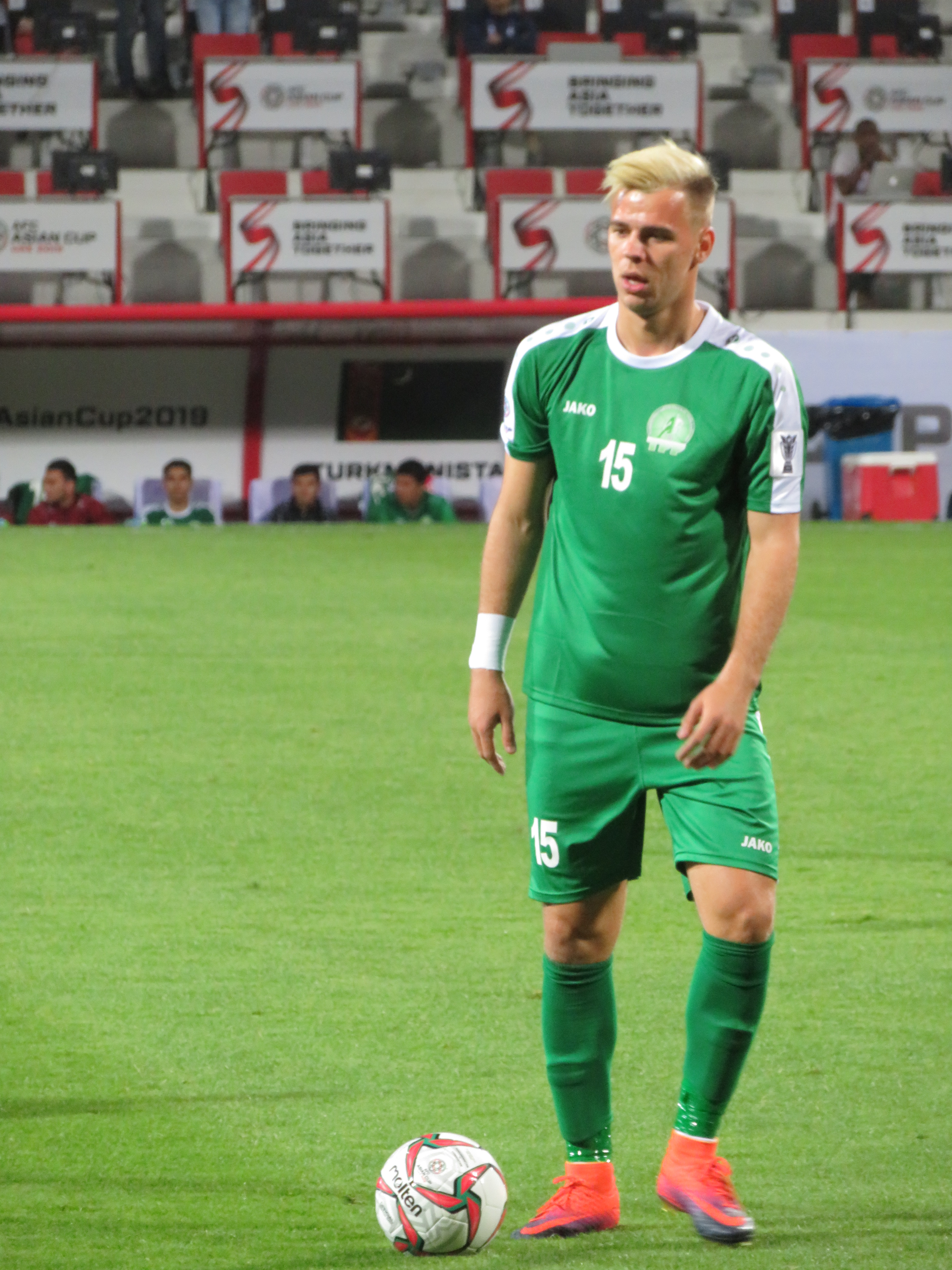 The Turkmenistan international player Mikhail Titov during the game againt Uzbekistan at the AFC Asian Cup UAE 2019. 13 January, 2019. Rashid Stadium. Dubai, UAE.